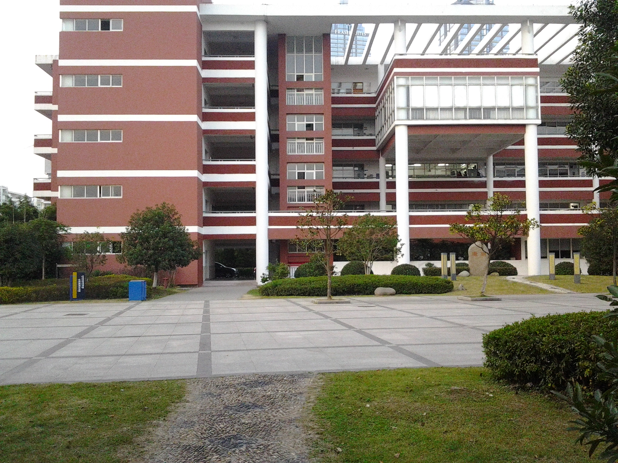 SIP Xinghai Experimental Middle School, Jiangsu, China